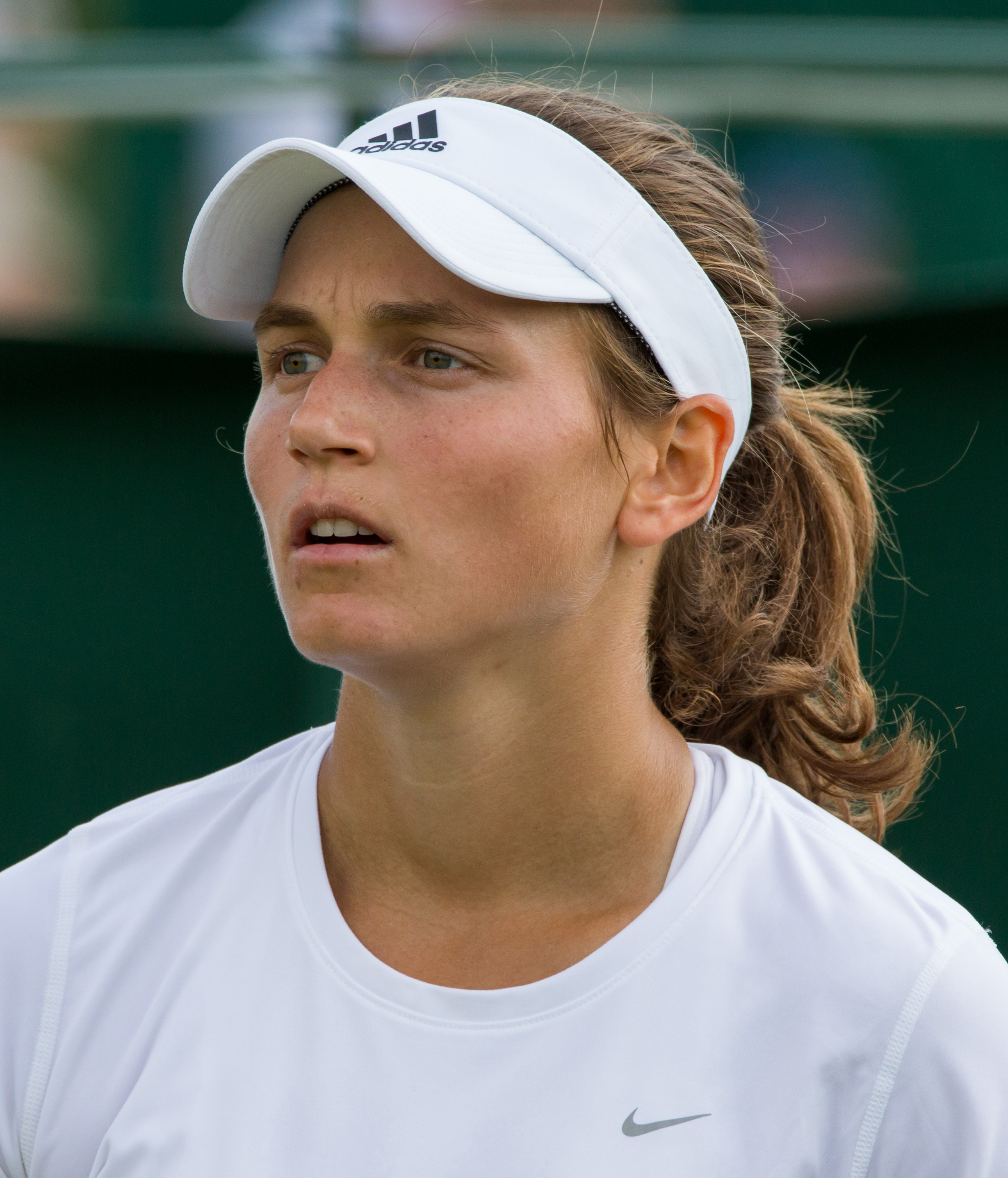 Stephanie Vogt competing in the first round of the 2015 Wimbledon Qualifying Tournament at the Bank of England Sports Grounds in Roehampton, England. The winners of three rounds of competition qualify for the main draw of Wimbledon the following week.